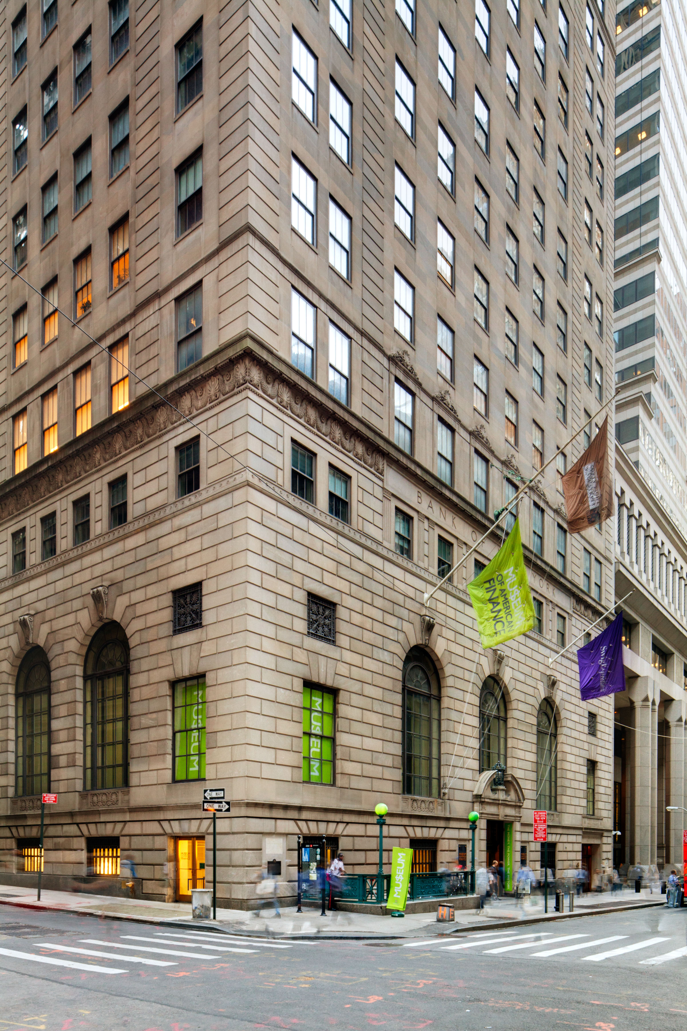 Museum of American Finance at William and Wall Streets in lower Manhattan by Alan Barnett